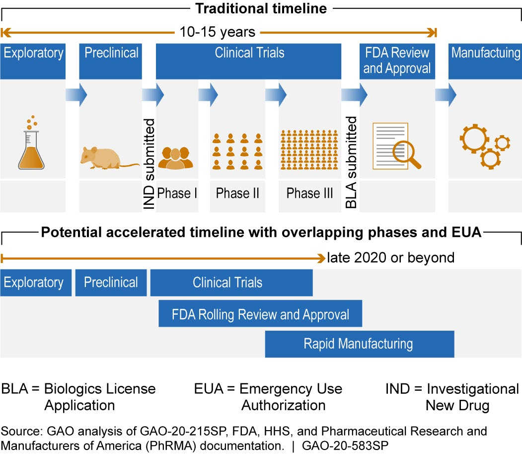 This image is excerpted from a U.S. GAO report: SCIENCE & TECH SPOTLIGHT: COVID-19 Vaccine Development